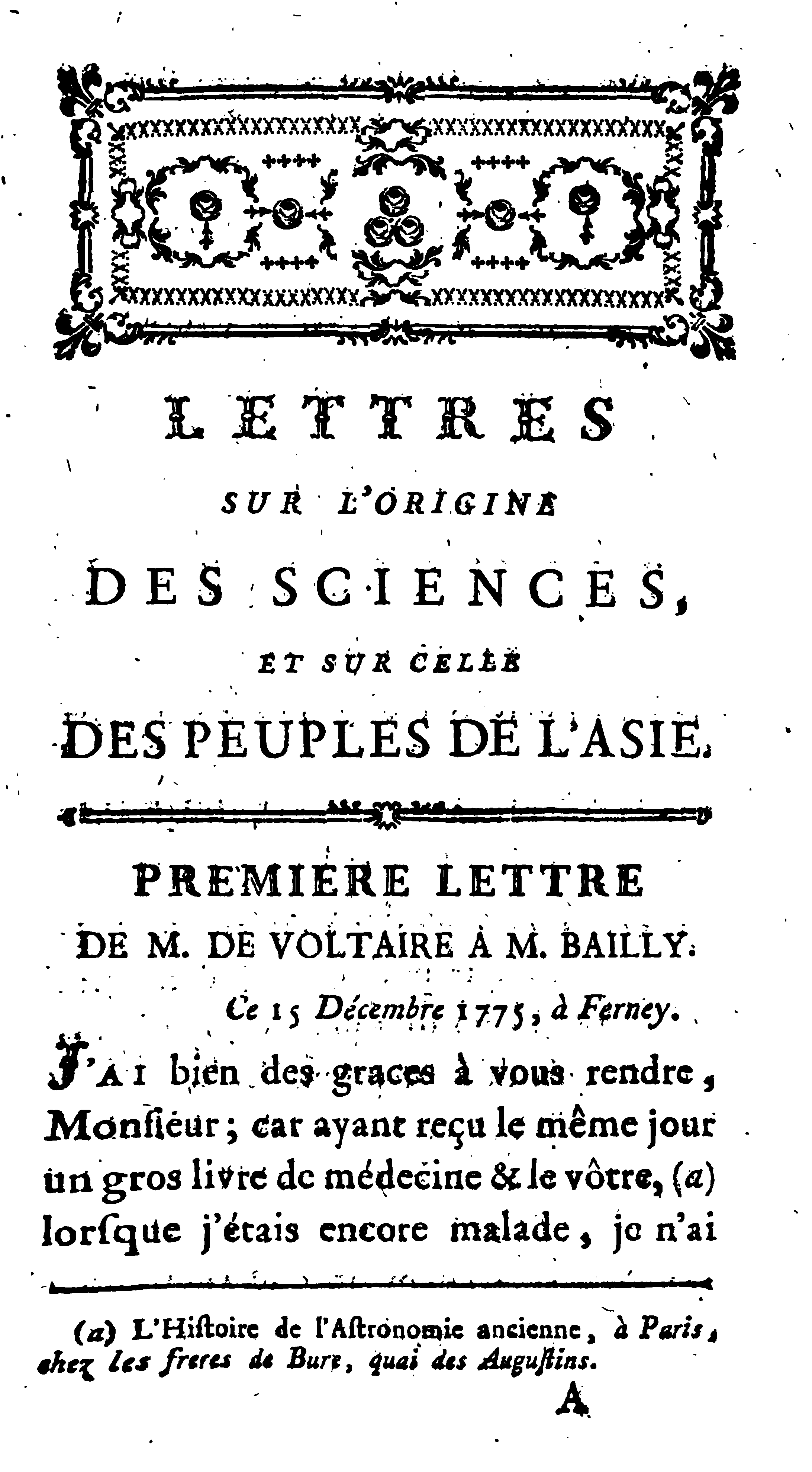 First letter from Voltaire in the "Lettres sur l'origine des sciences" by Jean Sylvain Bailly.